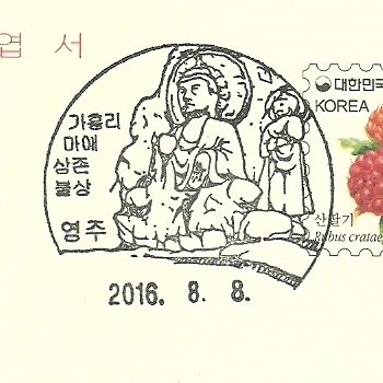 Postmark depicting Rock-carved Buddha Triad of Gaheung-ri, Yeongju Post Office, Republic of Korea. Started to use from May 1, 2014.